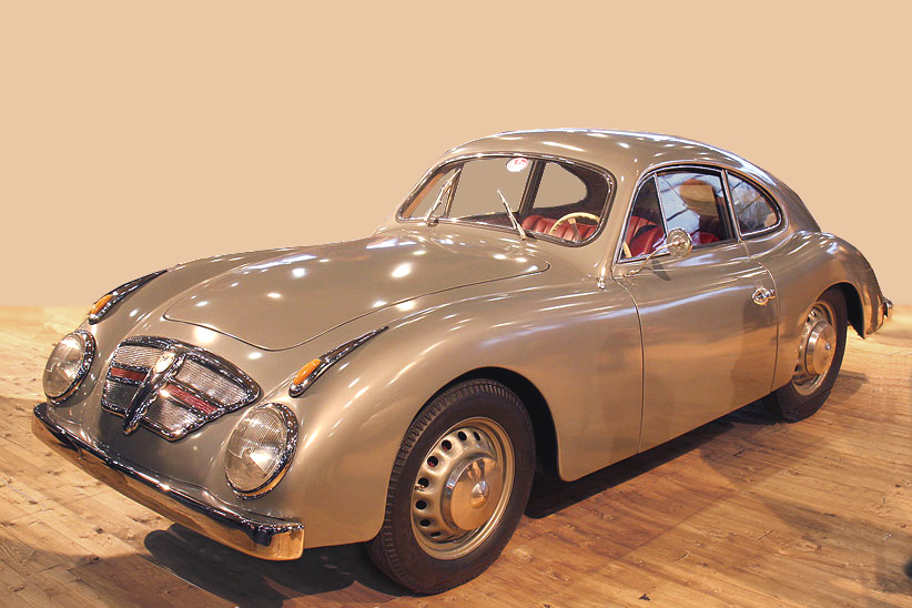 1952 Goliath 700 Sport Coupe Karosserie Rometsch